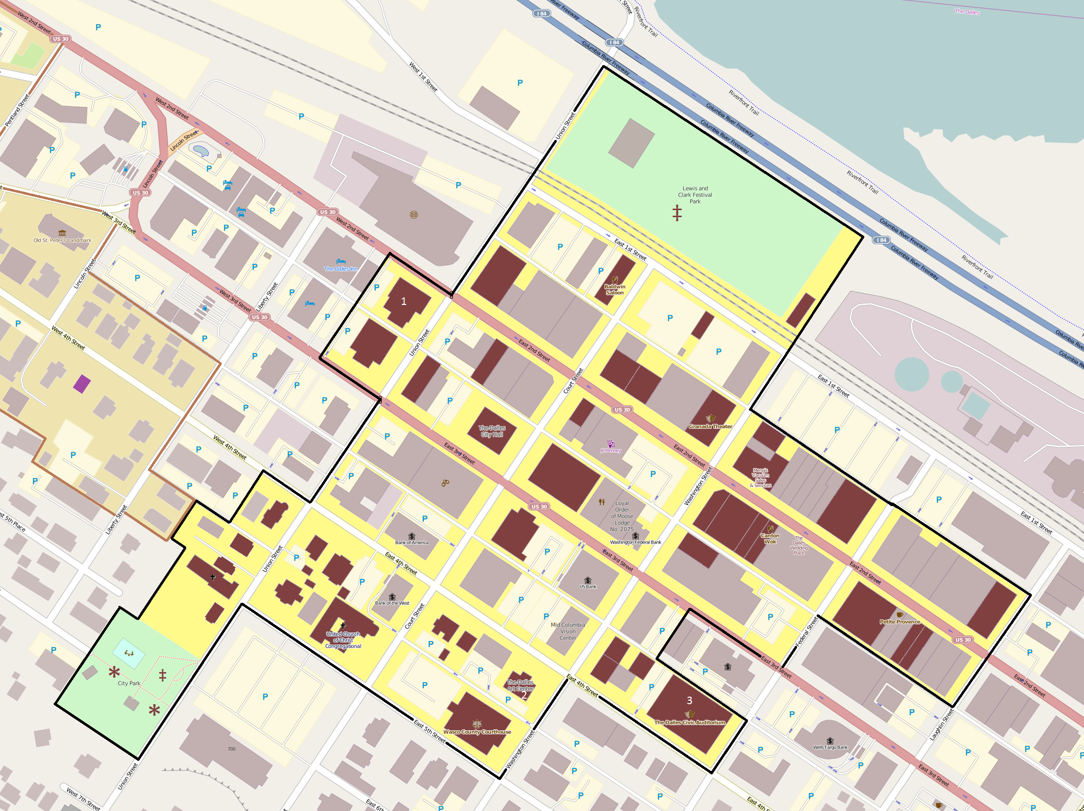 Map showing the boundaries of The Dalles Commercial Historic District in The Dalles, Oregon, United States. The historic district is listed on the US National Register of Historic Places. Boundary data is derived from the historic district's National Register nomination form (1997 revision). Black boundary/yellow area: The Dalles Commercial Historic District boundaries. Brown boundary/tan area: Boundaries of the adjacent Trevitt's Addition Historic District. White numbers: Represent the locations of contributing resources in the historic district that are also listed individually on the National Register: U.S. Post Office (former) The Dalles Carnegie Library (former) The Dalles Civic Auditorium Maroon shading: Buildings listed as contributing resources in the historic district. Maroon asterisks: Contributing resources in the historic district that are not buildings. Maroon double-daggers: Mark the former locations of resources that were identified as contributing features in the historic district at the time of listing on the National Register, but which had been either demolished or relocated by July 18, 2010 (date of Google Earth satellite imagery). Purple shading: Victor Trevitt House at its current location as of July 18, 2010 (date of Google Earth satellite imagery). The house was listed as a contributing resource in The Dalles Commercial Historic District (see maroon double-dagger in City Park), but was subsequently relocated outside the district.